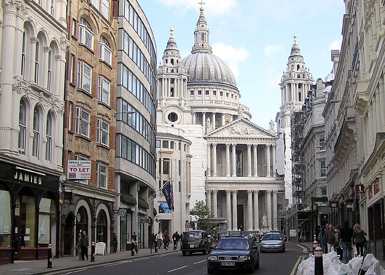 St. Pauls Cathedral from Ludgate Hill. Part of the façade is covered over for repair work. Taken by Adrian Pingstone in November 2004 and released to the public domain.